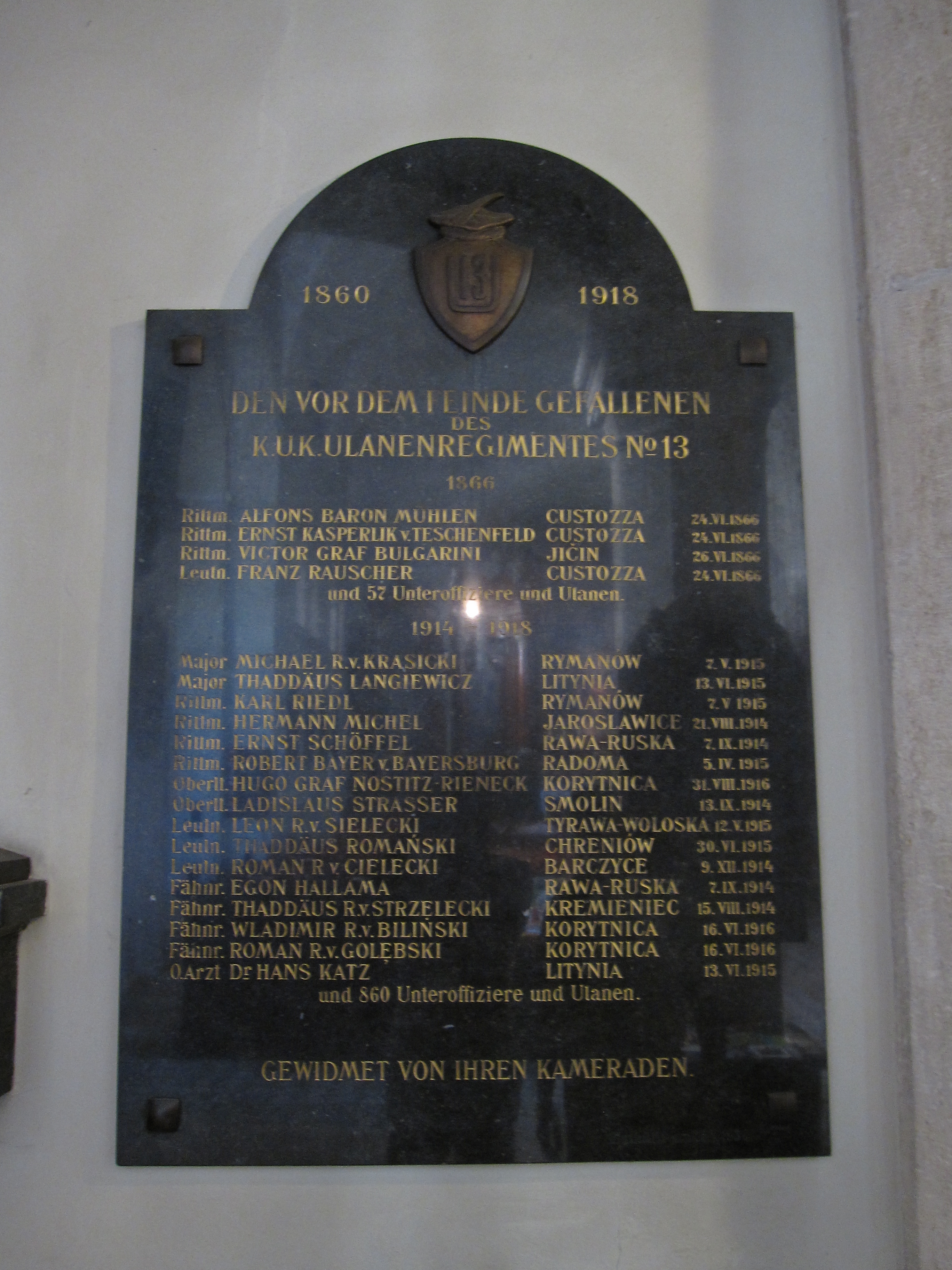 Memorial plaque to the Imperial and Royal Uhlan Regiment Nr. 13. Location in the Capuchin Church, Vienna. For inscription read below.